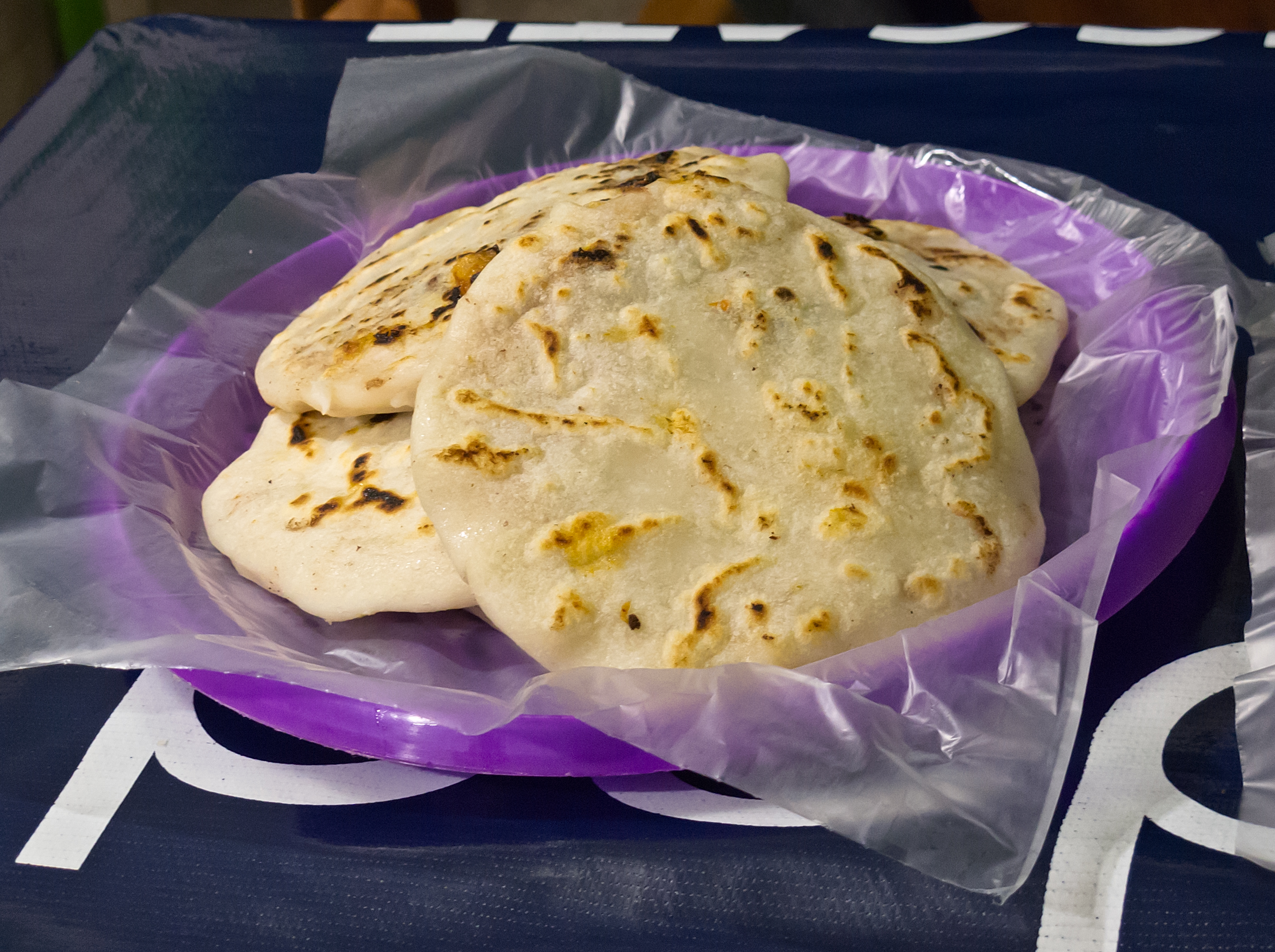 Pupusas, made in Olocuilta, La Paz, El Salvador. Note the way they are served here for an individual person is typical of pupuserias en El Salvador, i.e. plastic sheet over a round plastic tray